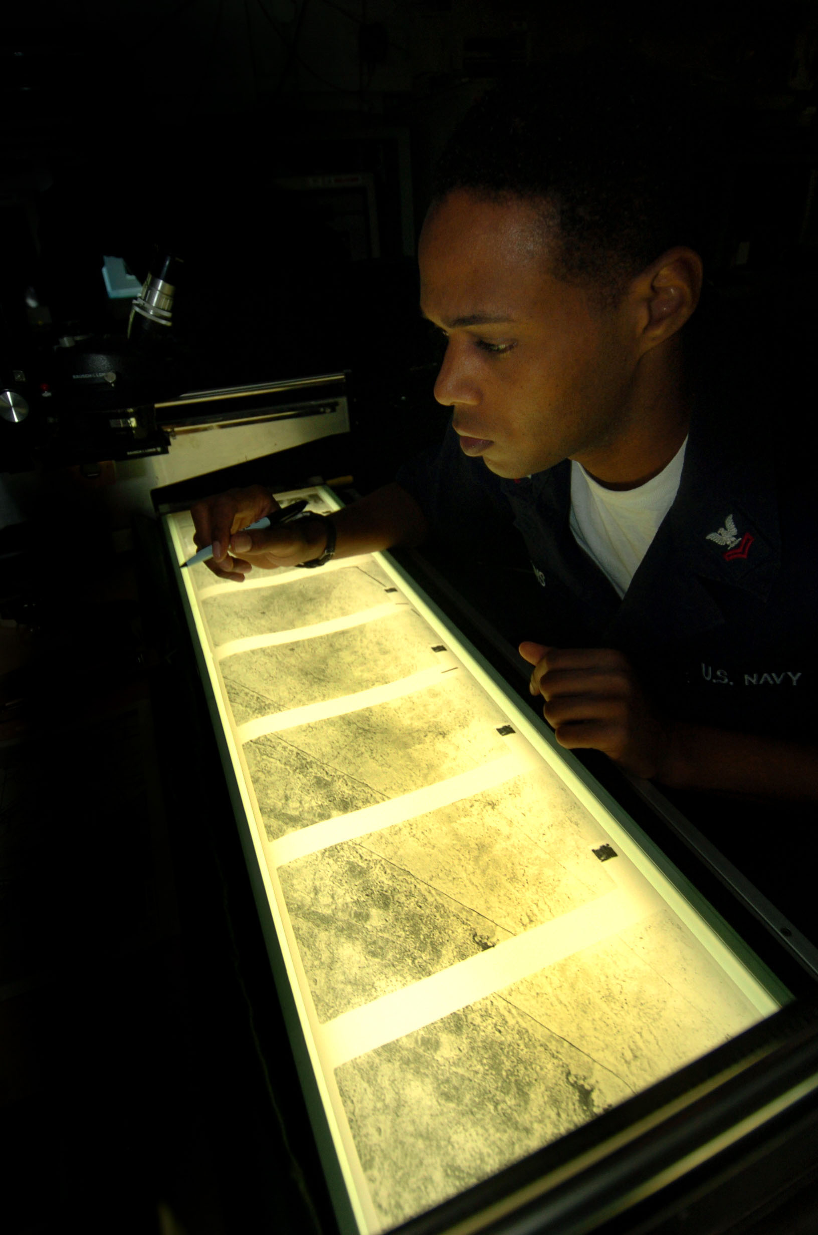 Indian Ocean (Sept. 24, 2004) - Intelligence Specialist 2nd Class Damon Jenkins of Los Angeles, Calif., reviews aerial reconnaissance imagery on a light table in the Carrier Intelligence Center (CVIC) aboard the aircraft carrier USS John C. Stennis (CVN 74). The imagery came from the "Tomcatters" of Fighter Squadron Three One (VF-31) during their final Tactical Air Reconnaissance Pod System (TARPS) mission. TARPS was used to provide target acquisition and identification, poststrike target assessment and maritime surveillance imagery. Stennis and embarked Carrier Air Wing Fourteen (CVW-14) are currently participating in a scheduled deployment to the Western Pacific Ocean. U.S. Navy photo by Photographer's Mate 3rd Class Mark J. Rebilas (RELEASED)